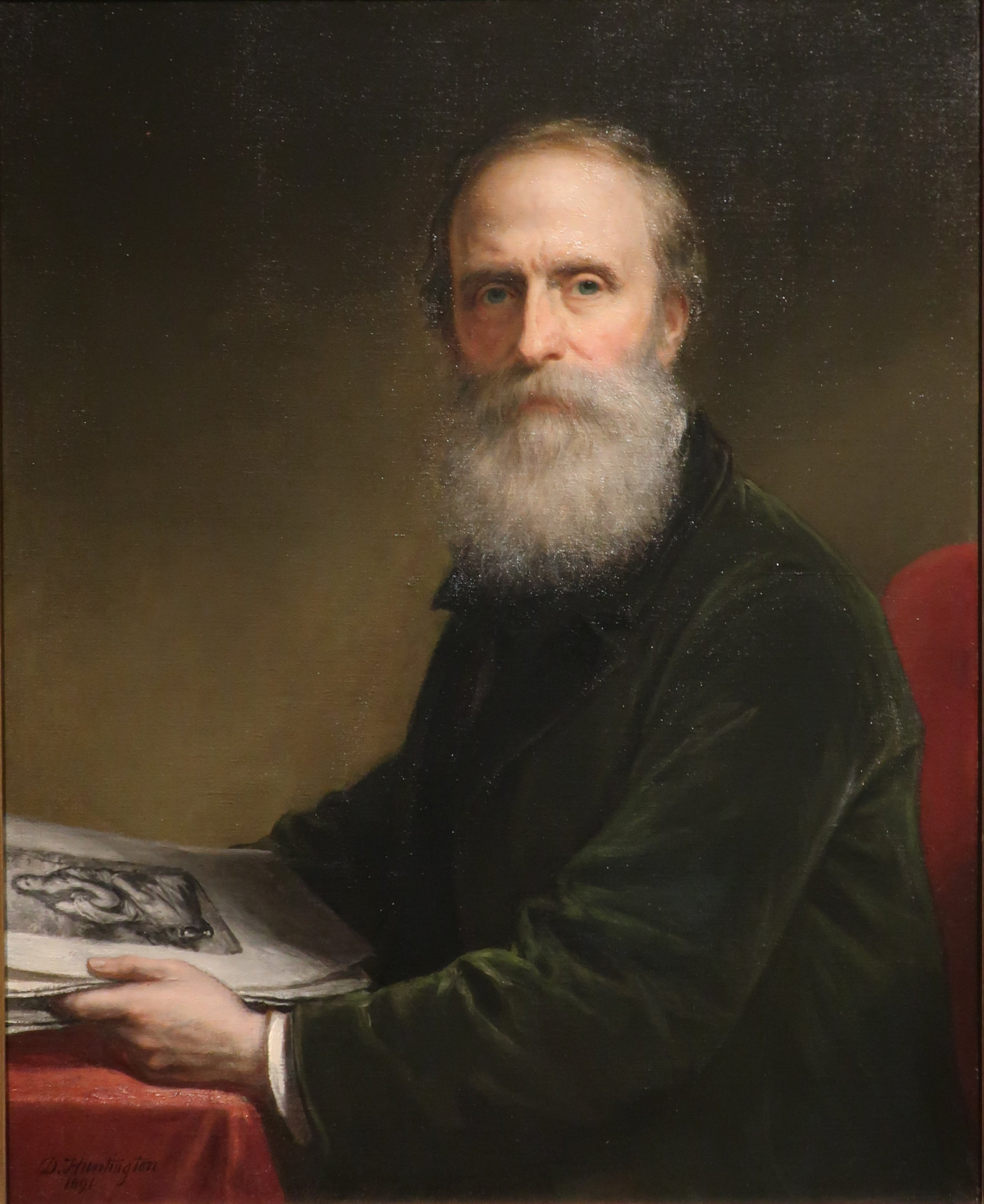 Self-portrait by Daniel Huntington, 1891, oil on canvas, National Academy of Design